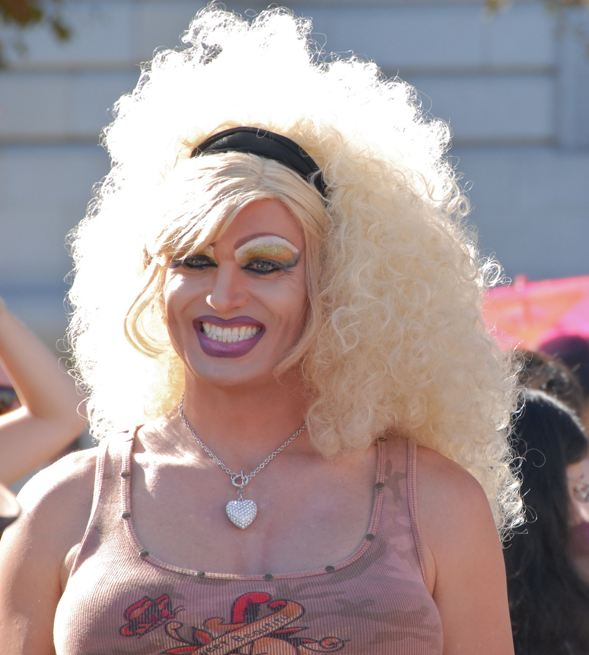 Pollo del Mar at a No on 8 march 2008